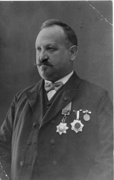 Mendel Kremer wearing Turkish medals of honor.